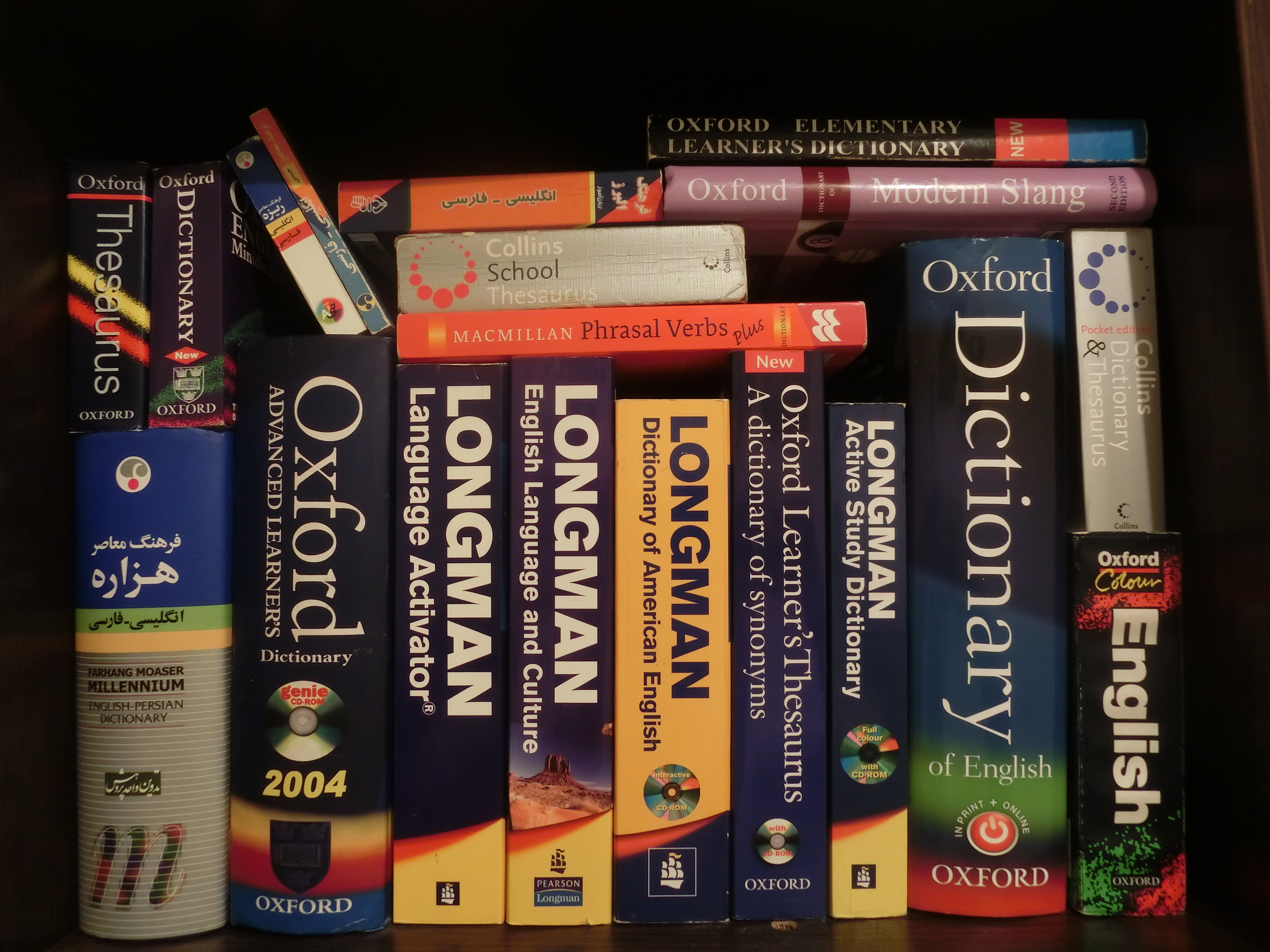 English-English and English-Persian dictionaries